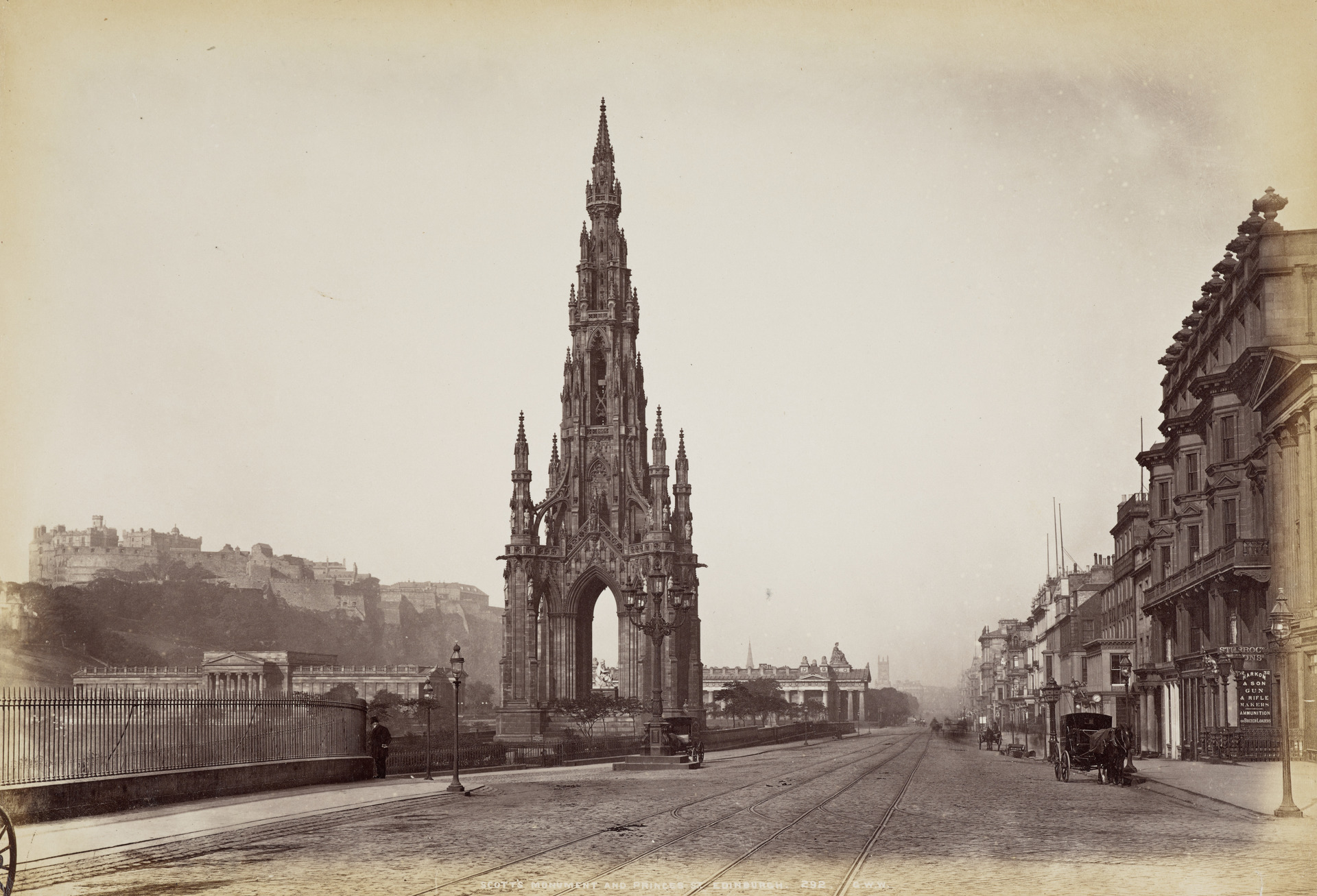 Photographer: George Washington Wilson